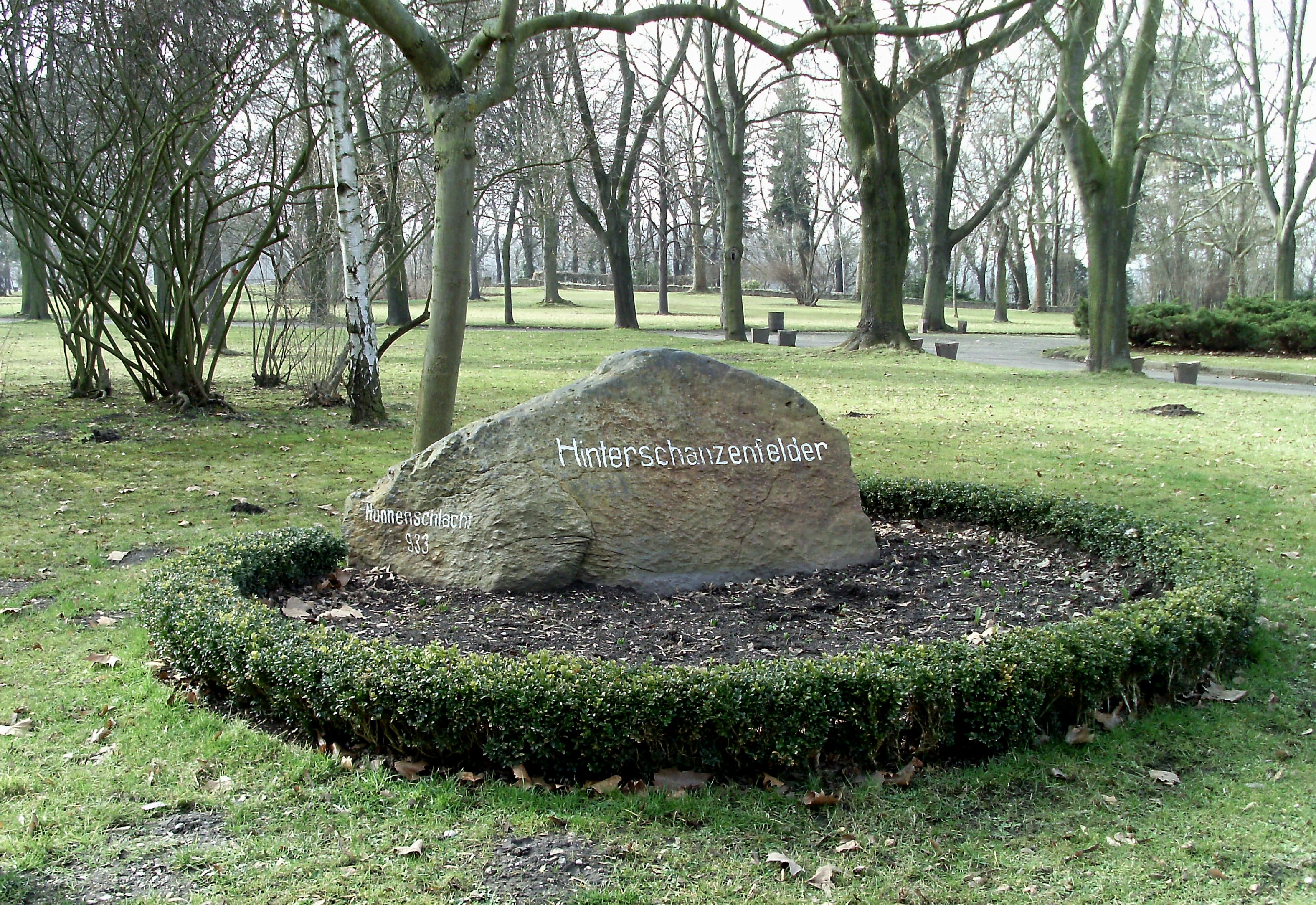 Memorial stone to the Battle of Riade in the spa gardens of Bad Dürrenberg (district of Saalekreis, Saxony-Anhalt). Bad Dürrenberg is one of several places that claim to have been the theatre of this battle.